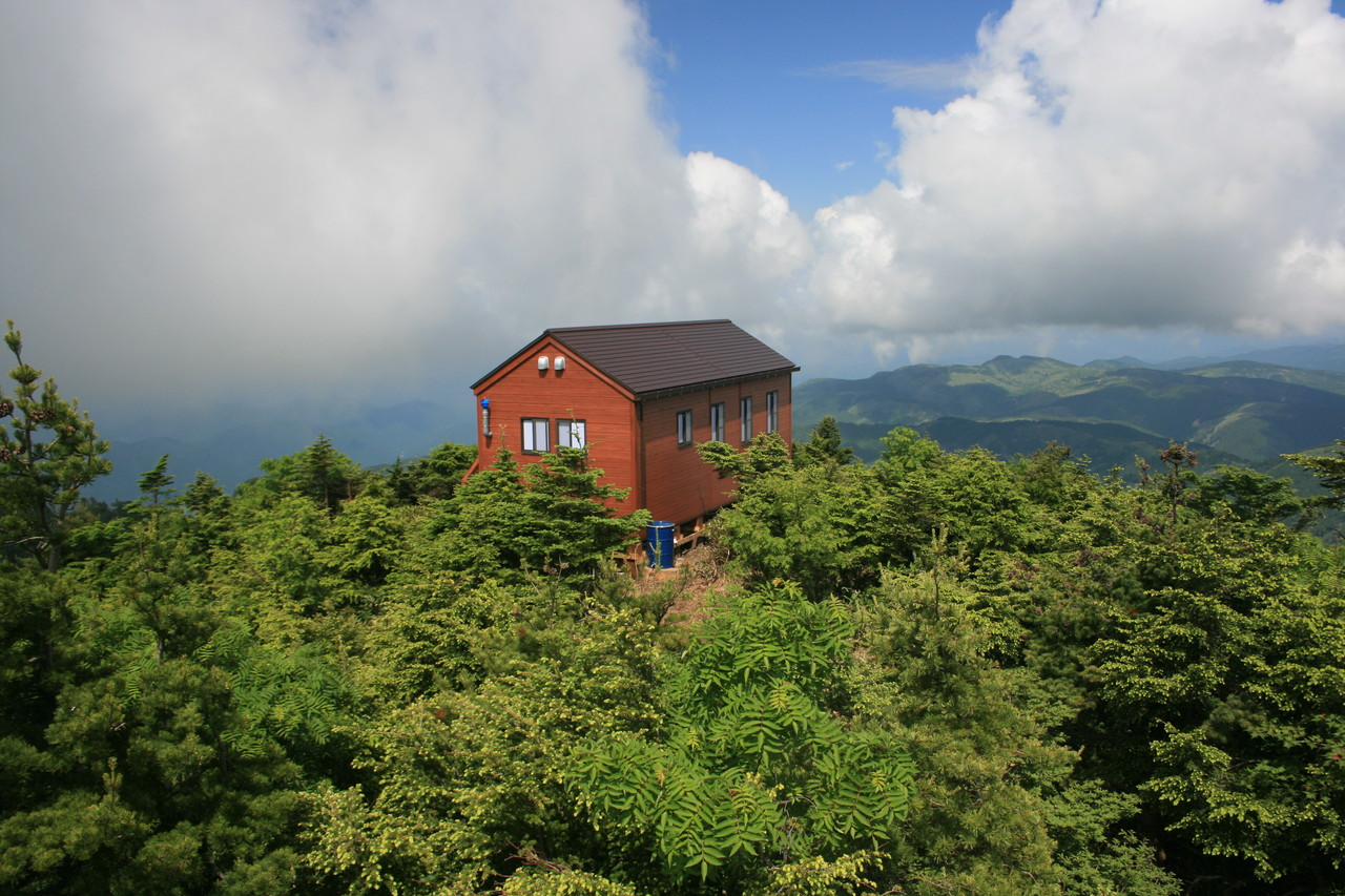 Shuuhōsha, a mountain hut (bivouac hut) in Mount Kohide, Kashimo, Nakatsugawa, Gifu prefecture, Japan.